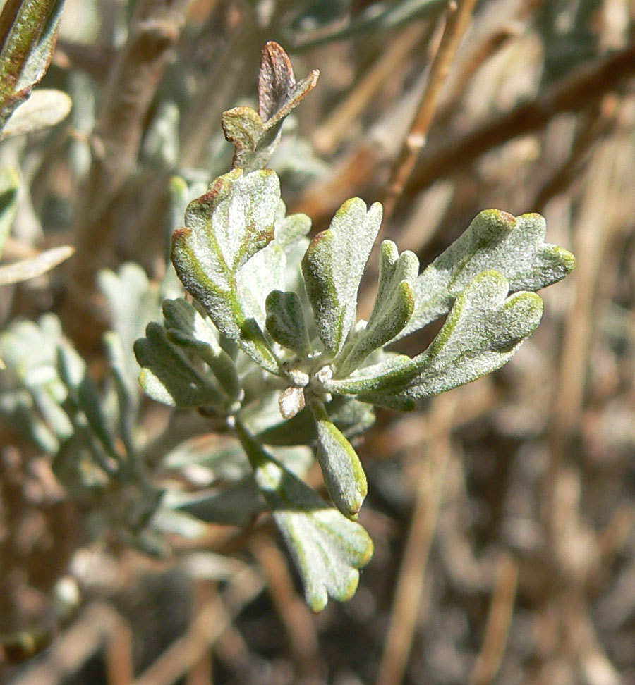 Artemisia nova on west side of Camp Bonanza Road, south of the Cold Creek community, Spring Mountains, southern Nevada (elev. about 1950 m)